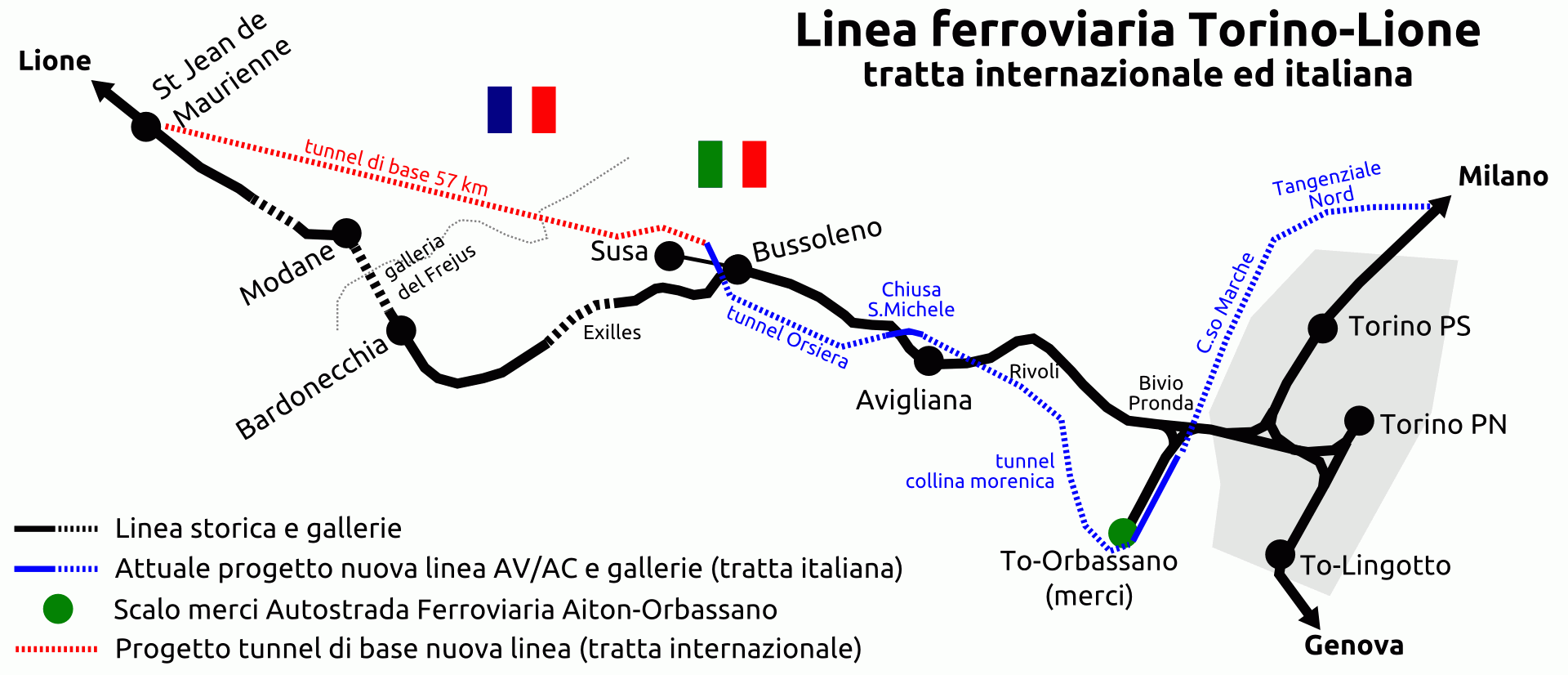 Schematic view of existing (black) and planned (blue) Turin-Lyon railway link (Italian and international tracks).